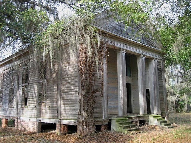 Adams Grove Presbyterian Church near Sardis, Alabama, United States.